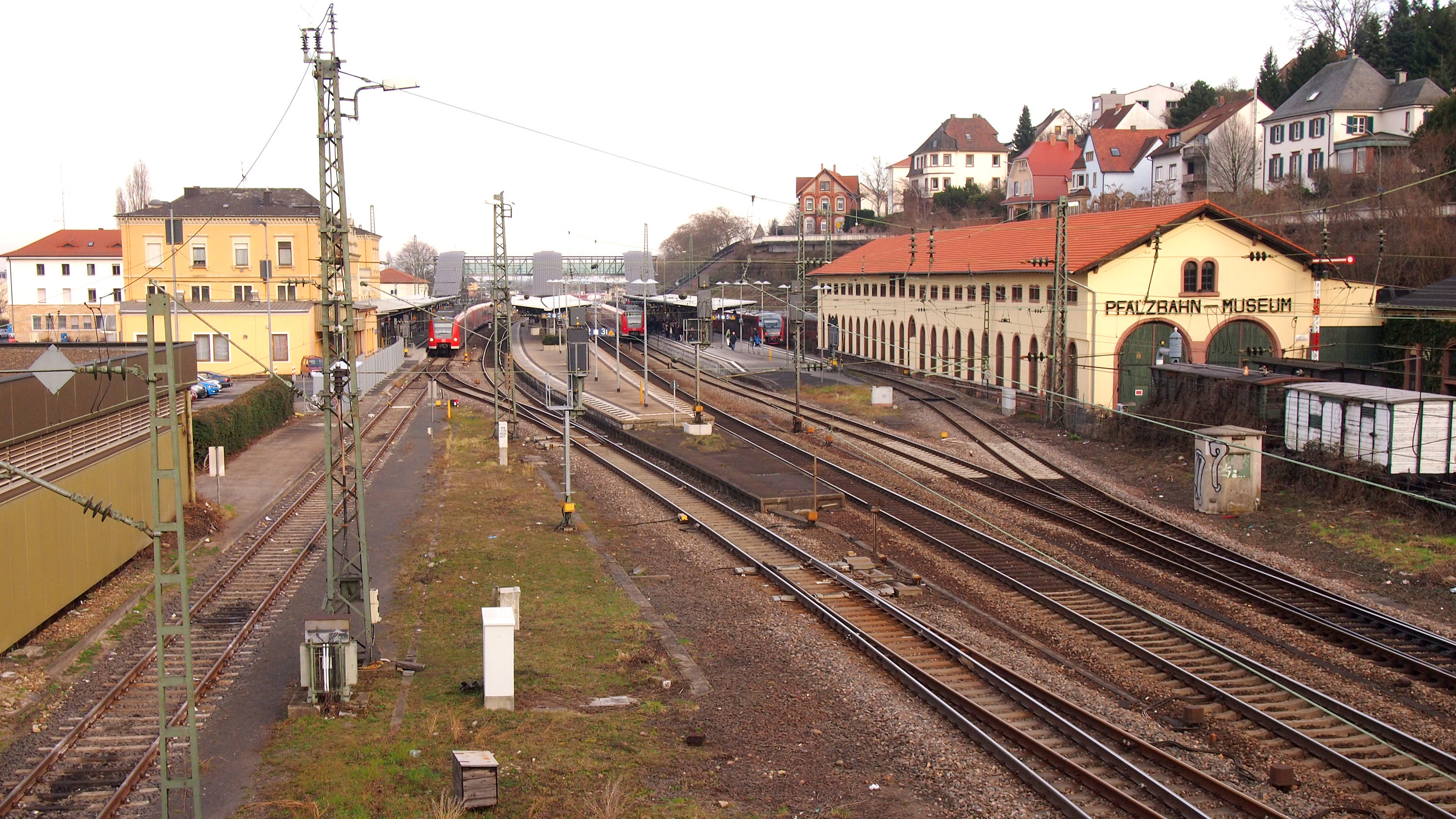 Neustadt an der Weinstraße, Hauptbahnhof, railway station